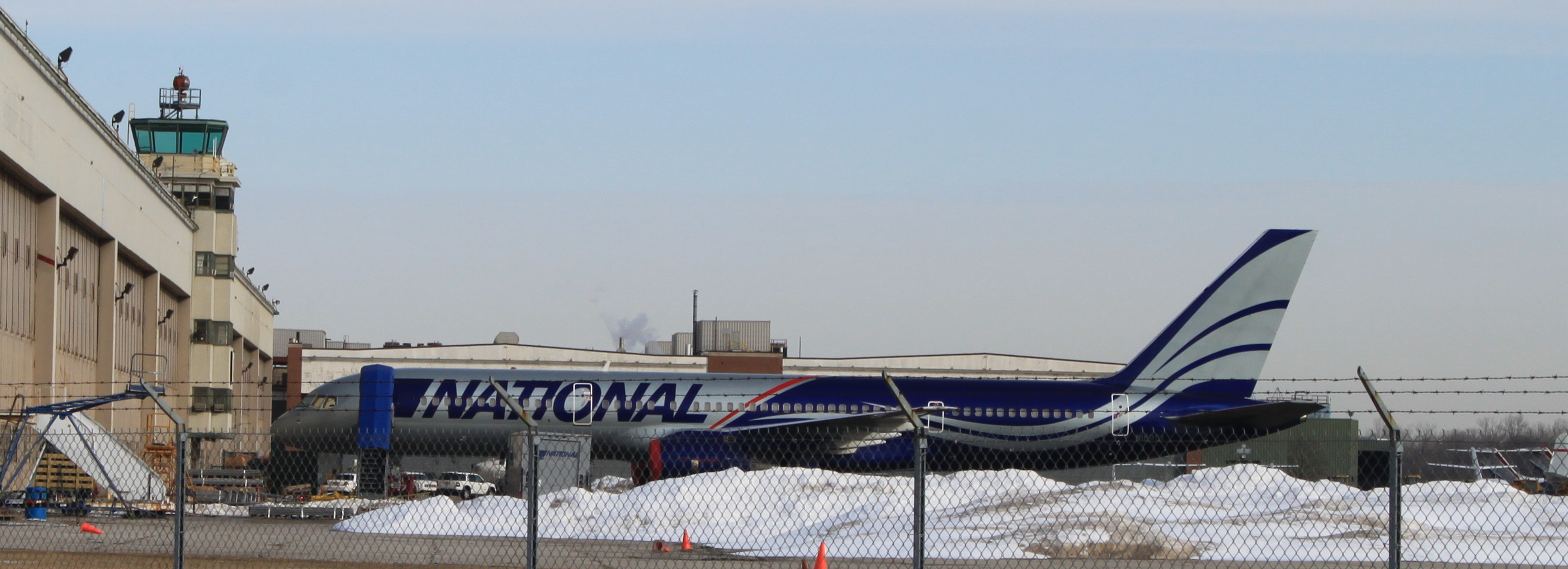 National Airlines Boeing 757-200 passenger plane, Willow Run Airport, Michigan